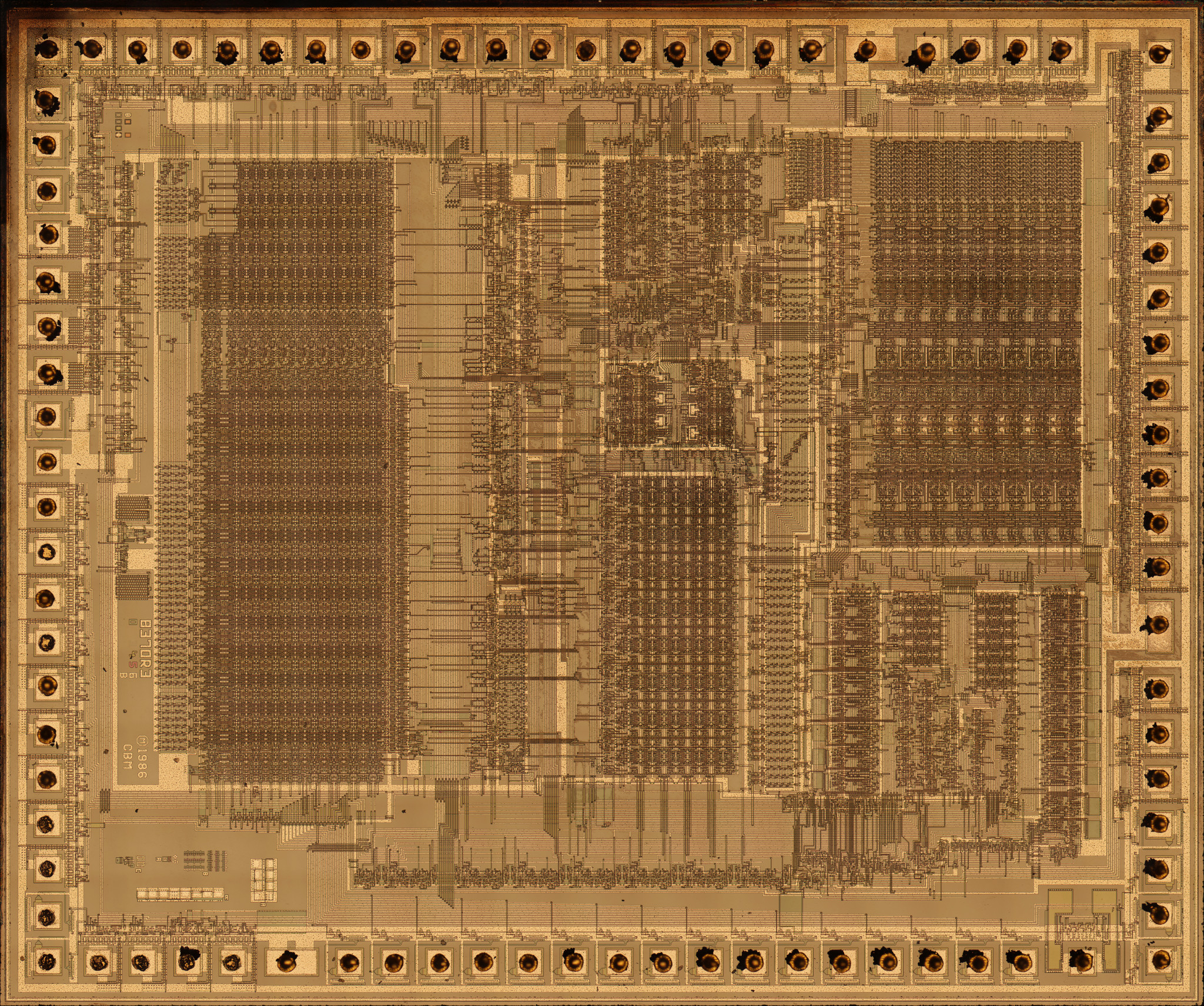 CBM 8370R3 top metal die shot - Amiga Agnus